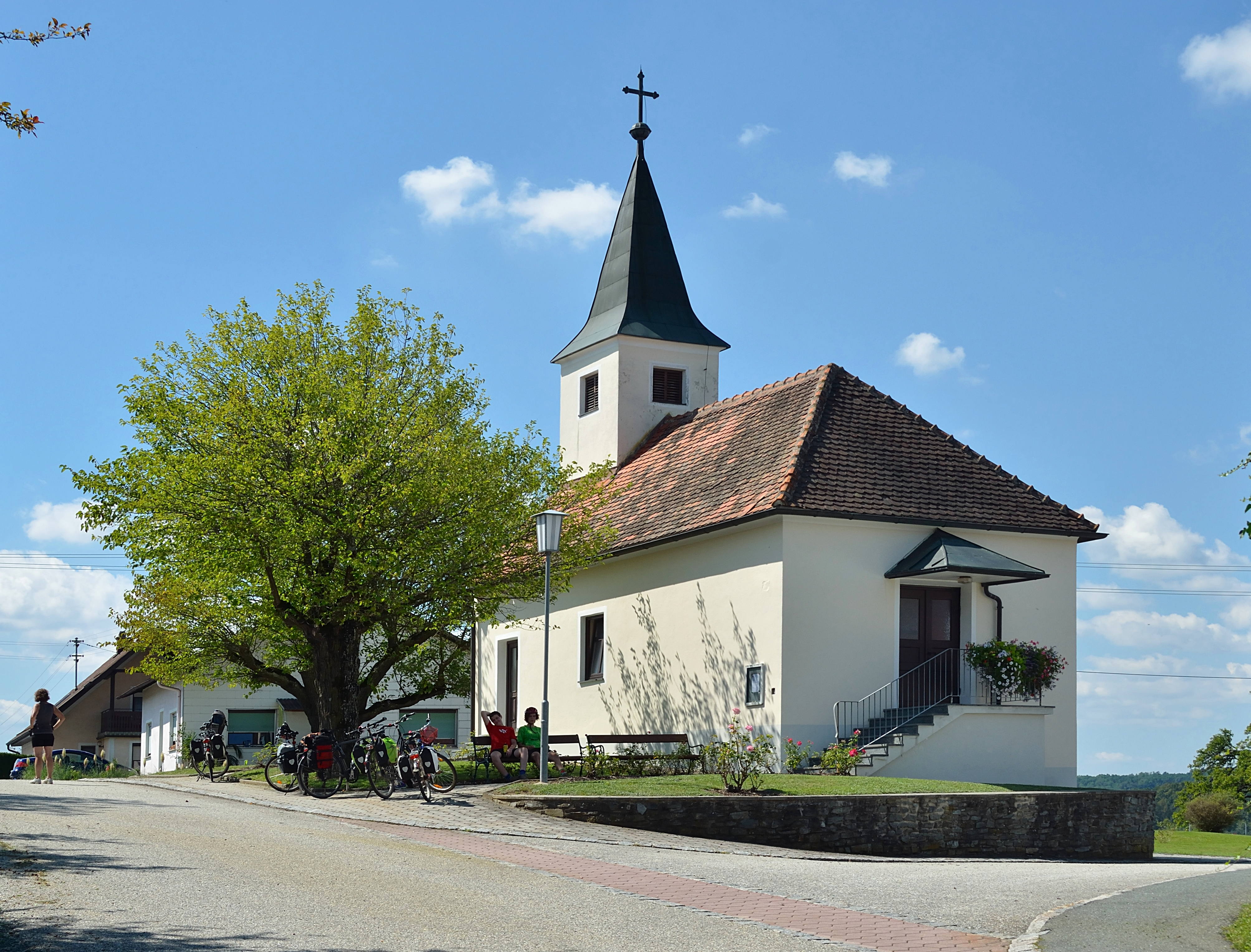 Church in Kleinmürbisch, Burgenland, built in 1949/50.